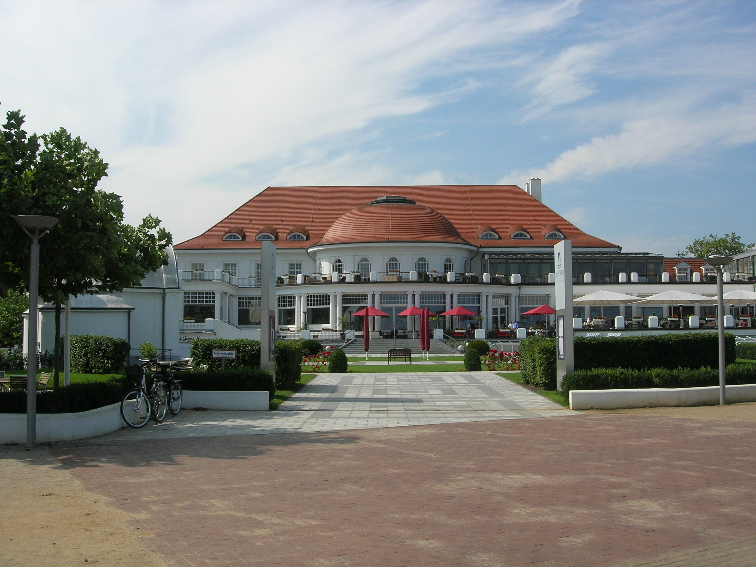 A house in Travemunde